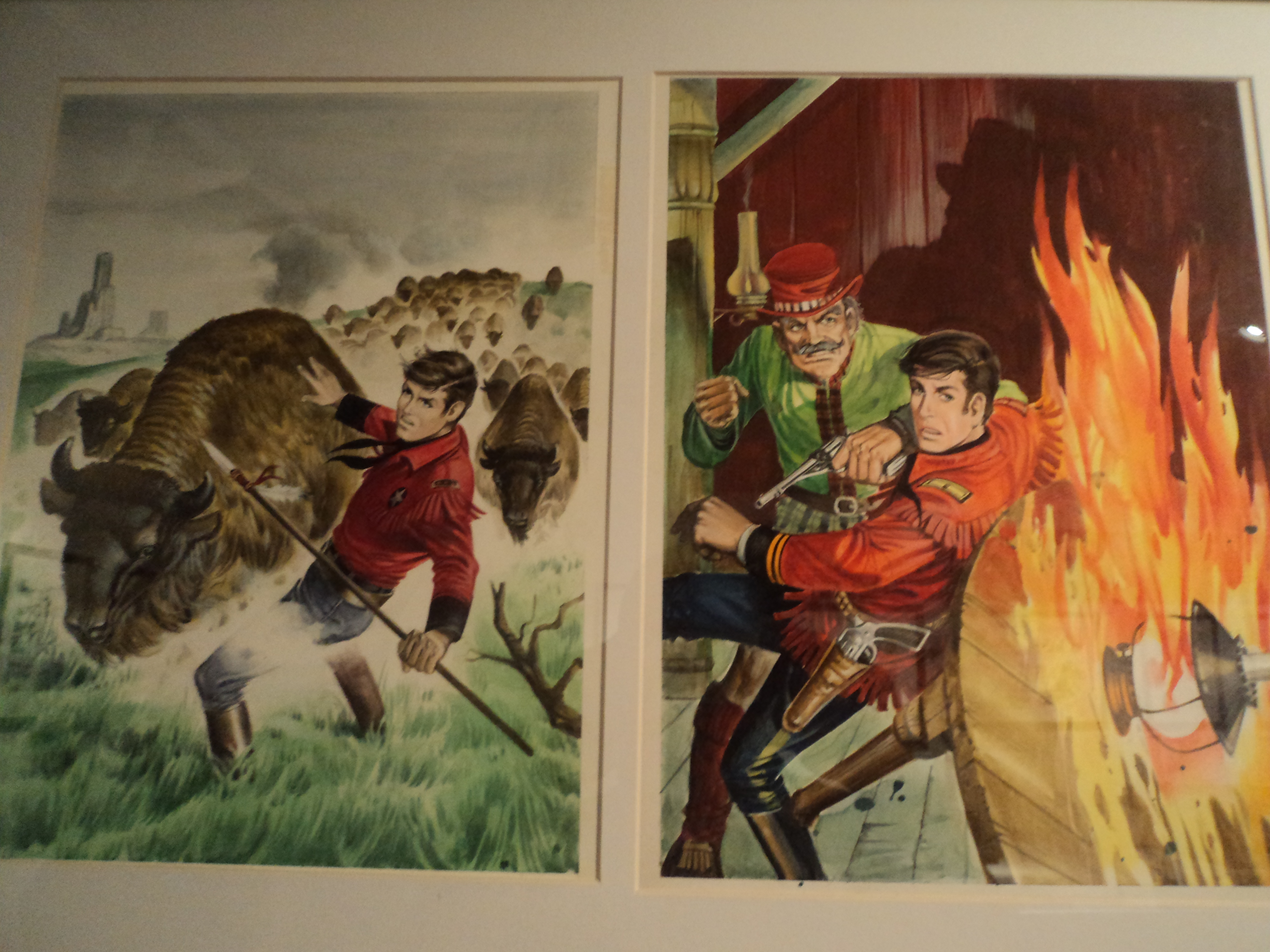 Show L'Audace Bonelli in Rome.